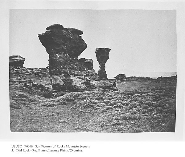 Red Buttes, Laramie Plains, Wyomimg "Sun Pictures of Rocky Mountain Scenery" Photograph Collection, 1868-1870 URL